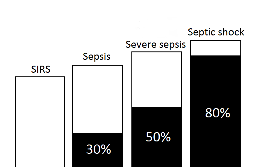 graphic of mortality associate with sepsis